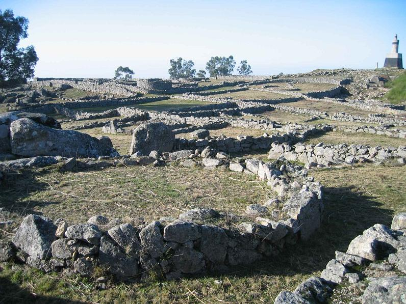 Hill Fort - Citânia of Sanfins - Paços de Ferreira - Portugal